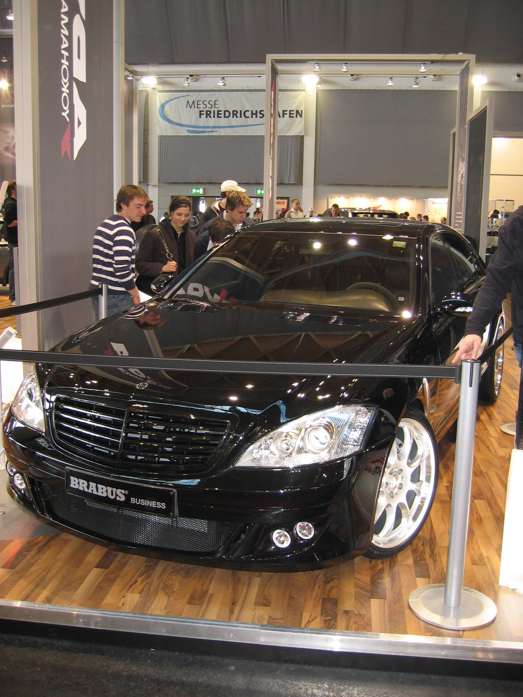 Brabus S-Class